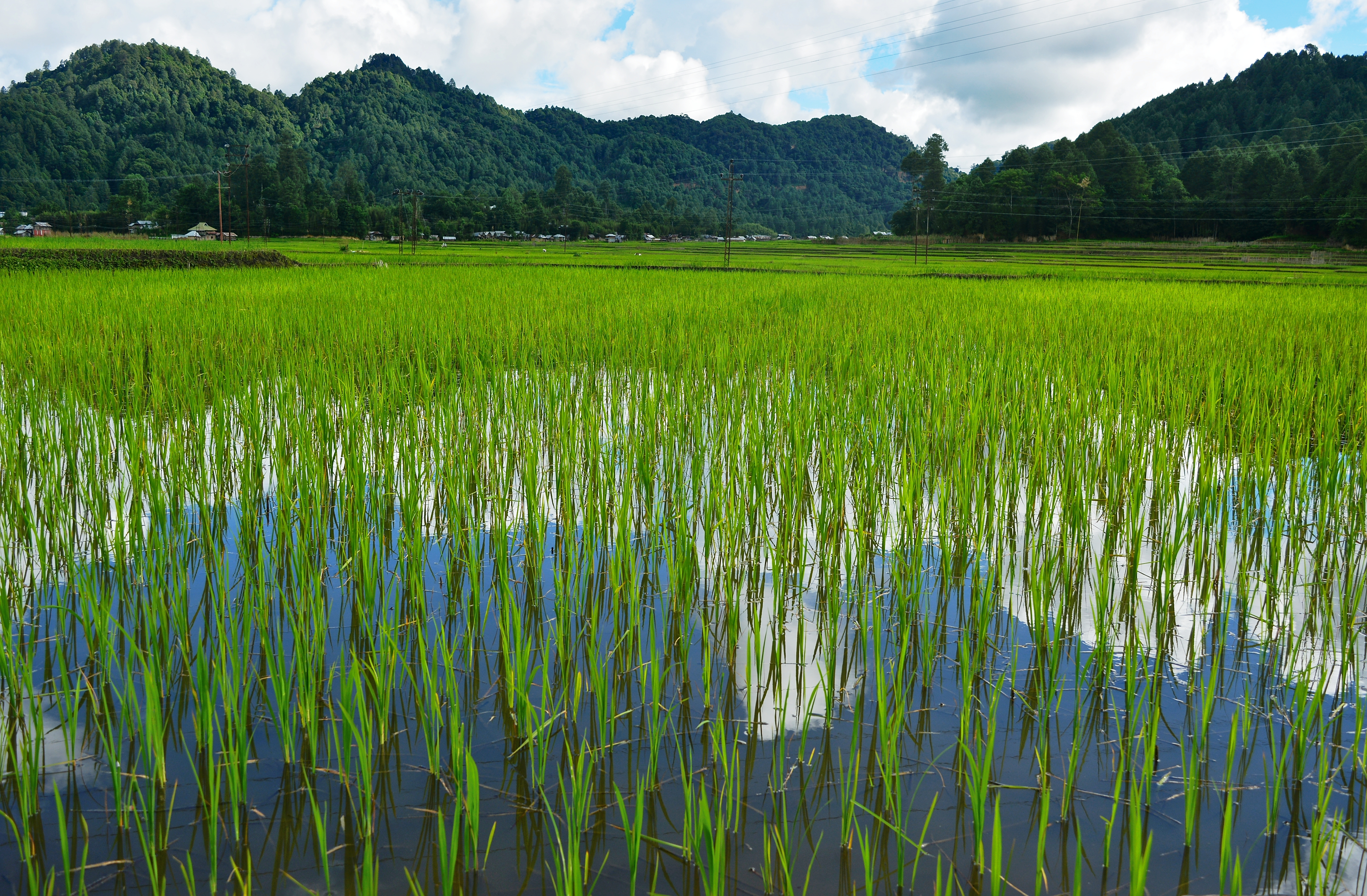 Ziro in Arunachal Pradesh is a lone plateau hidden between tall mountains. This is one of the only place where paddy-pisciculture is found in India (literally fishes in the irrigated waters). Home to Apatani tribals, the rich culture is preserved still in Ziro.